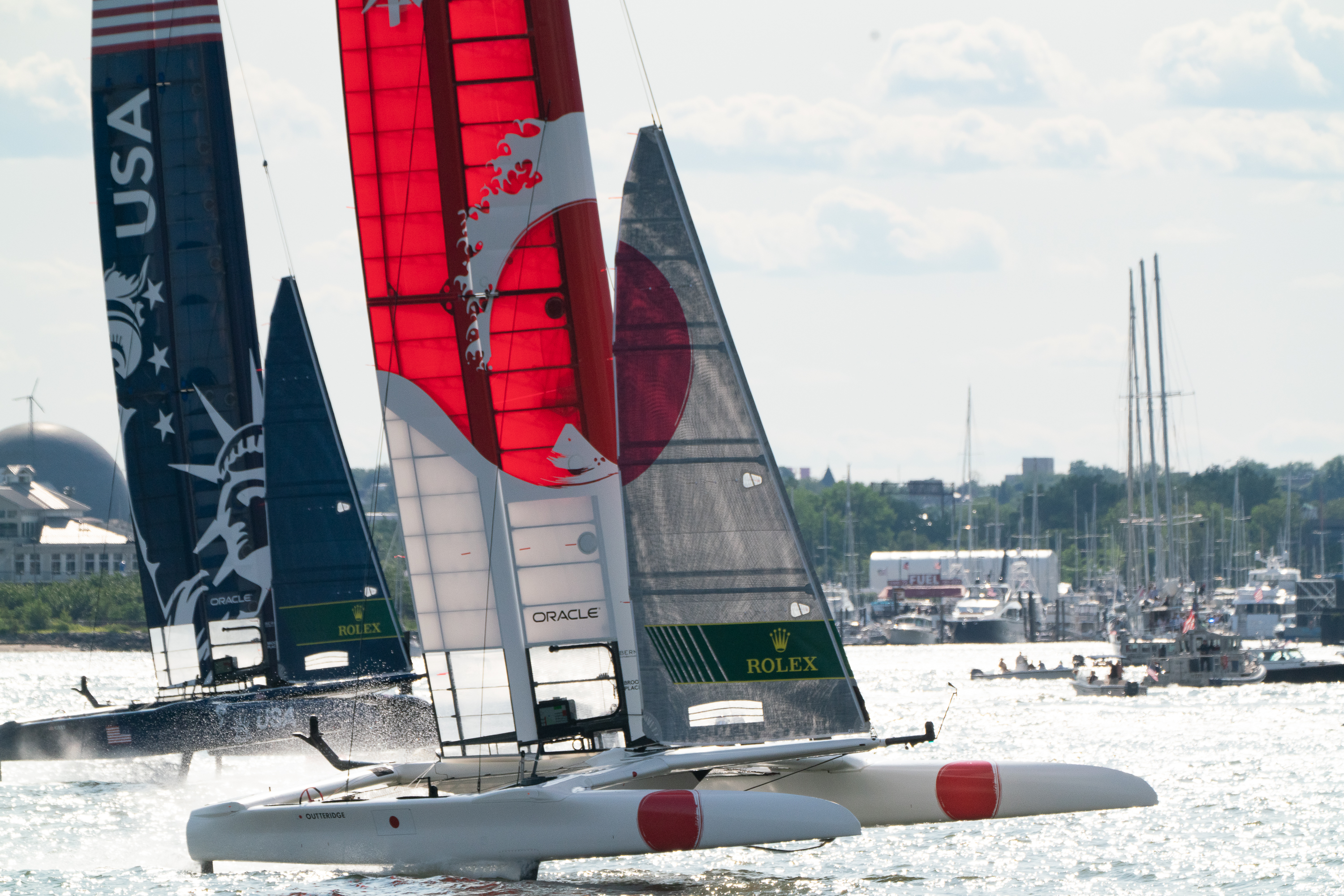 SAILGP American and Japanese Teams